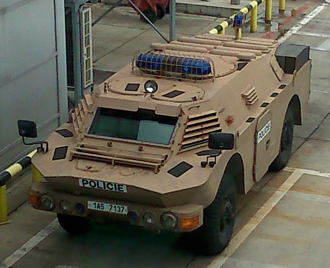 Czech police armored vehicle in Václav Havel Airport Prague.